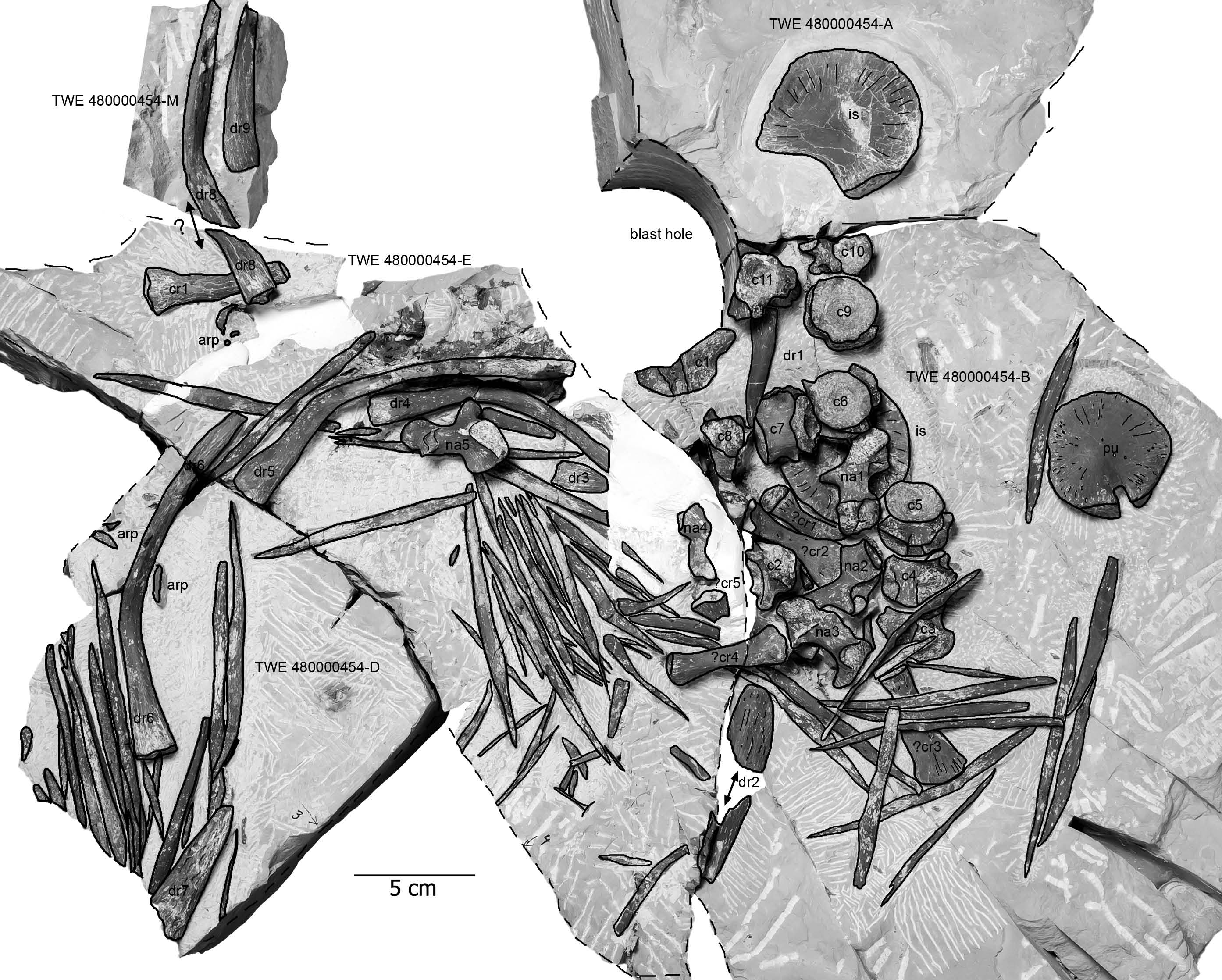 Outline and overview of the connected slabs TWE 480000454-A, -B, -D, -E, and -M. TWE 480000454-A shows a single plate-like girdle bone (is). TWE 480000454-B contains disarticulated vertebrae from the posterior presacral and sacral region (c1-11, na1-3), fragments of dorsal ribs (dr1, dr2), elements of gastral ribs (unlabelled), the second ischium (is), the round, plate-like pubis (pu), and three bones, most likely representing sacral- or caudal ribs (?cr1-3). TWE 480000454-D, -E, and -M mainly contain dorsal ribs (dr3-9) and elements of gastral ribs as well as two more isolated halves of neural arches (na4, na5), and a caudal rib (cr1).